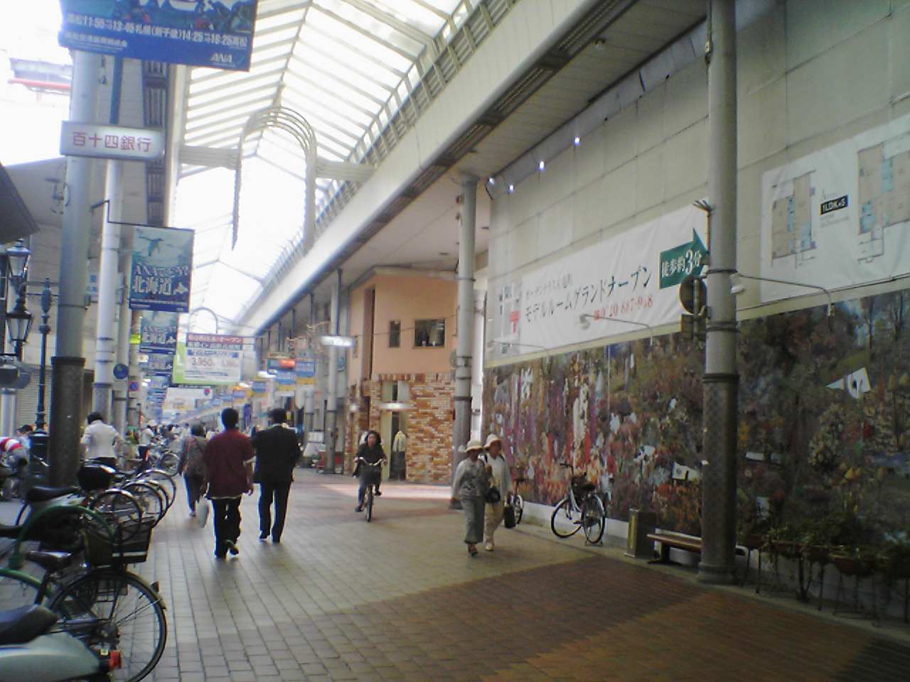 Takamatsu Central Arcade,Kagawa Japan